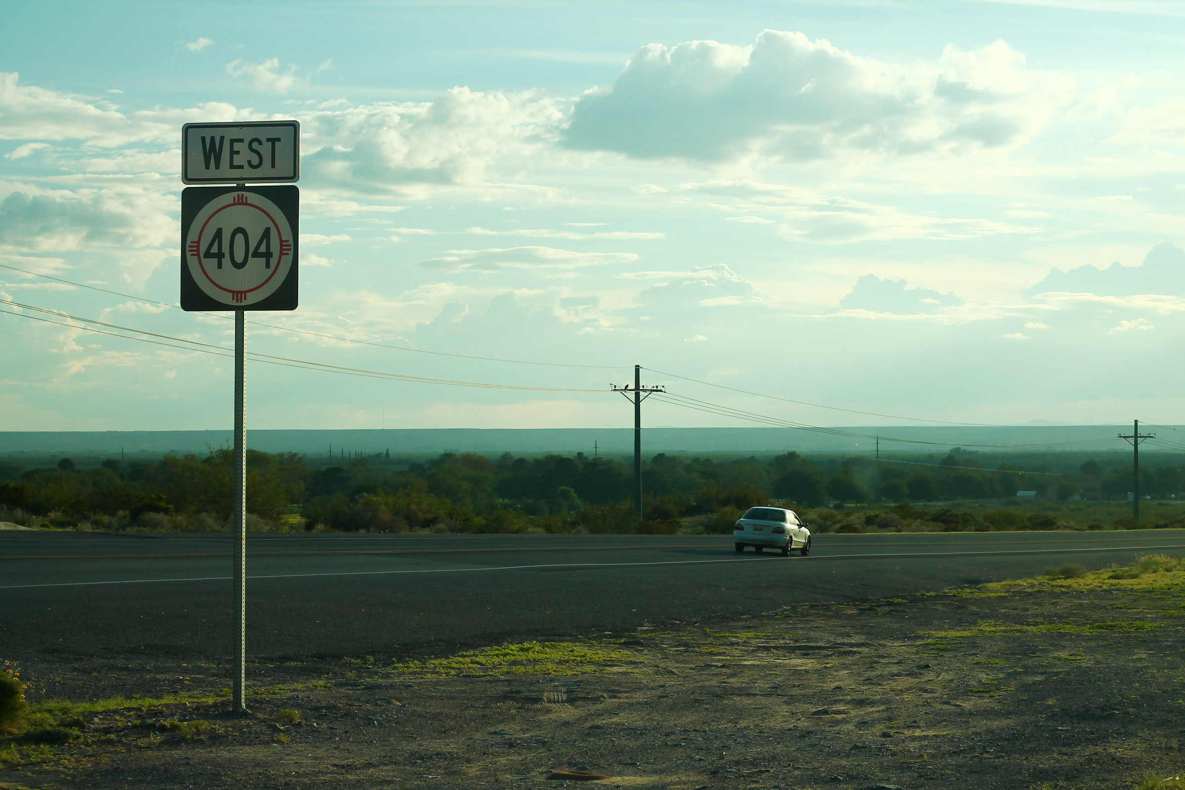 NM404wSignRoadside